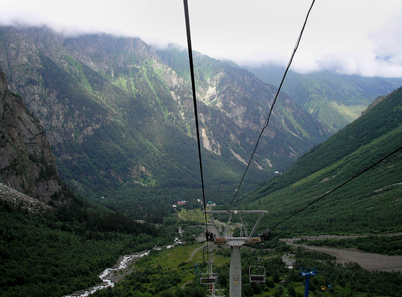 Cableway in Tsey canyon. North Ossetia, Russia.